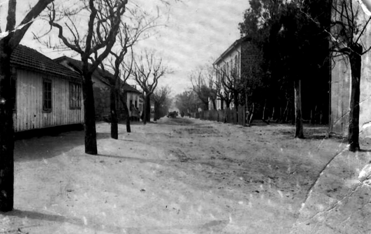 Moshava Petach Tikva.